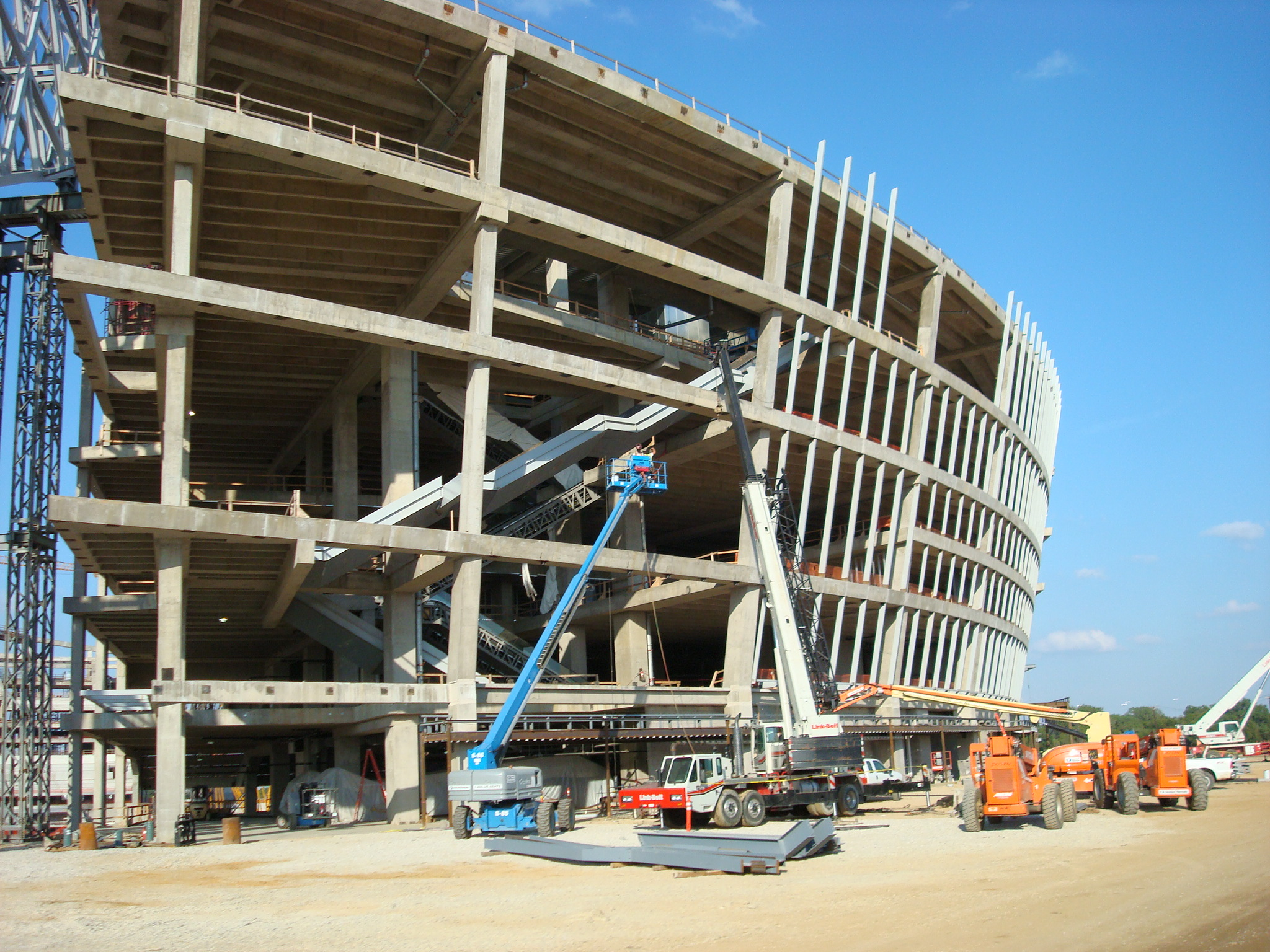 New Cowboys stadium, September 19, 2007